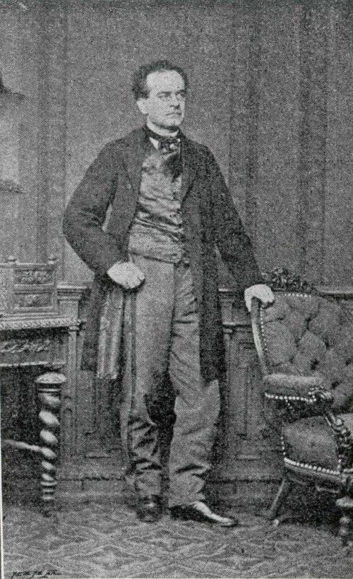 Blaž Kocen (1821-1871), Slovene geographer and cartographer